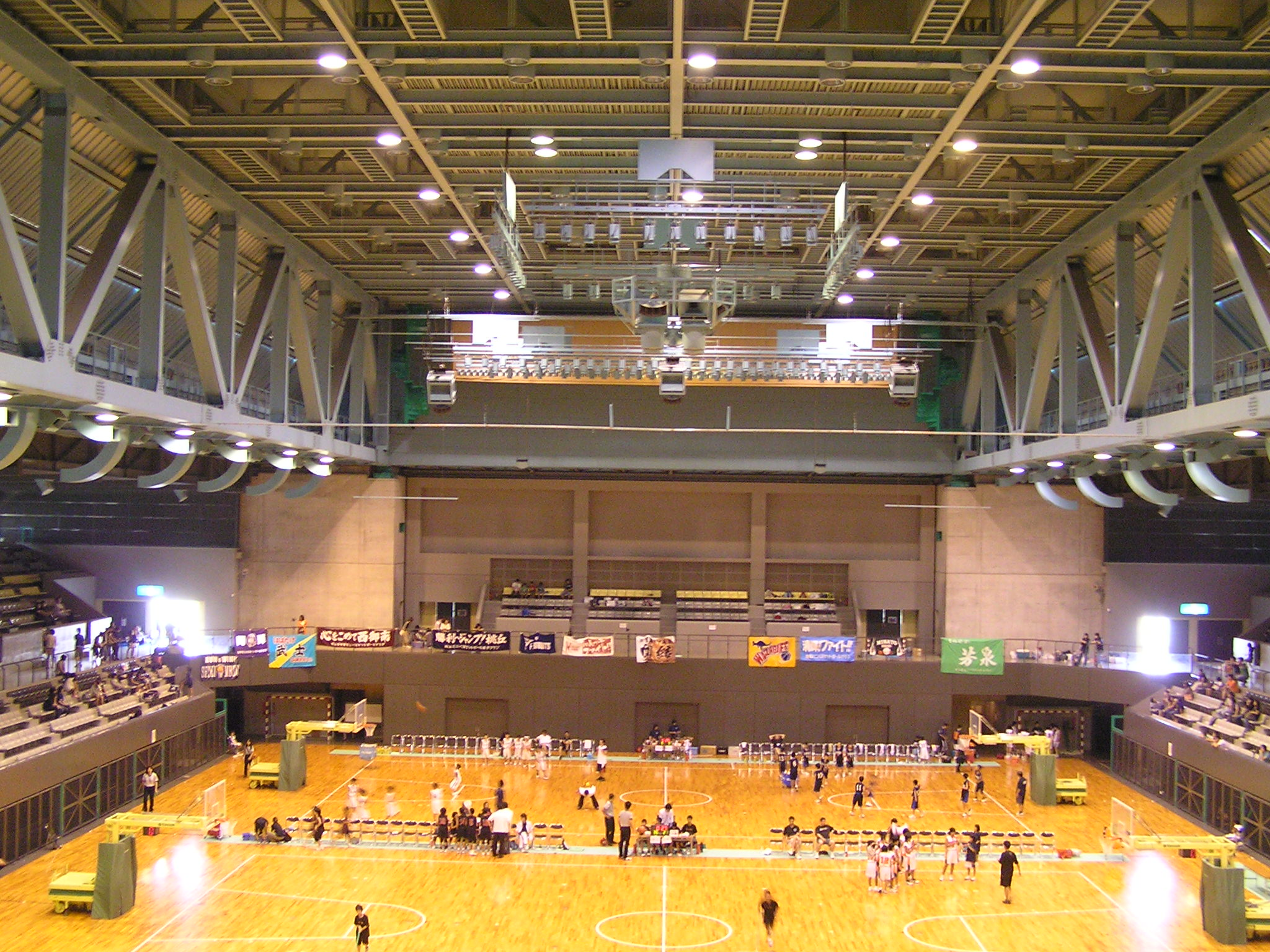 nside in Okayama City synthesis and culture Arena